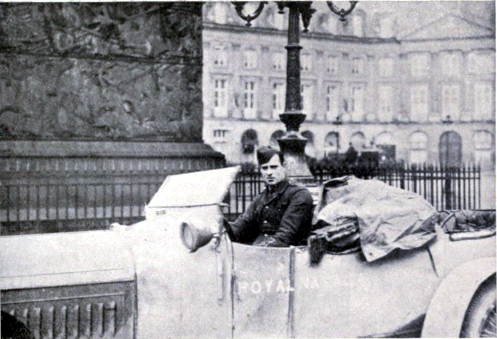 Anthony Wilding, in his armoured vehicle, at Paris in January 1915